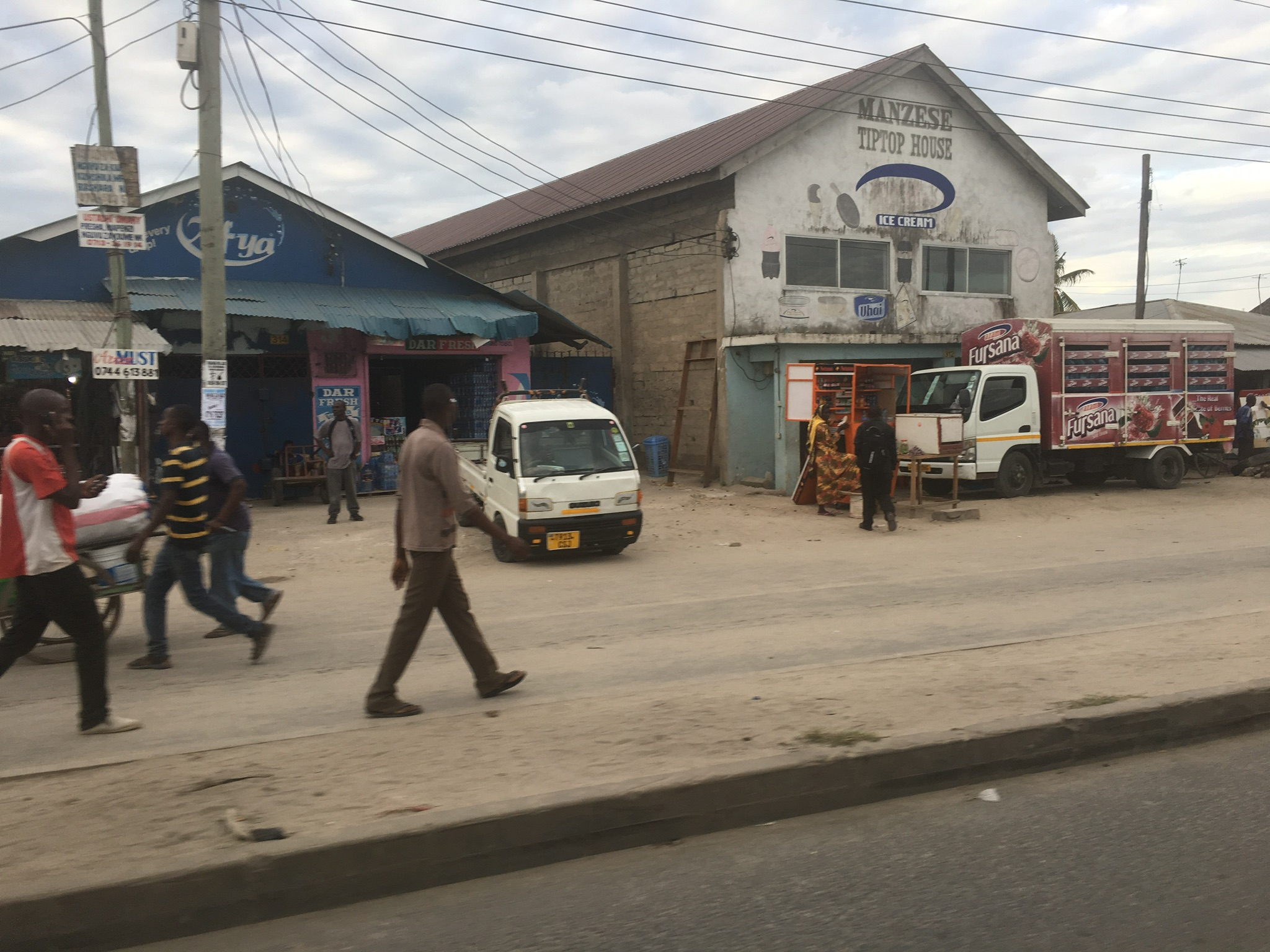 Manzese